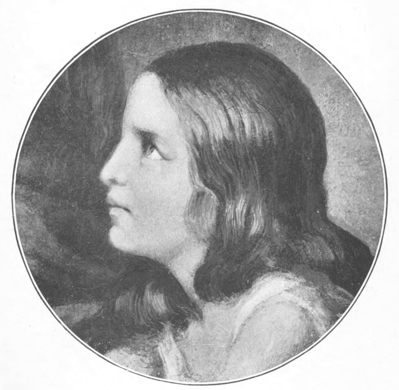 Octavia Hill as a Child. From an Oil Painting by Margaret Gillies.